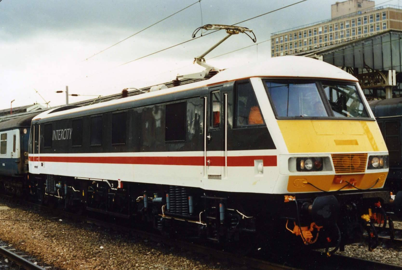 90001 at Crewe